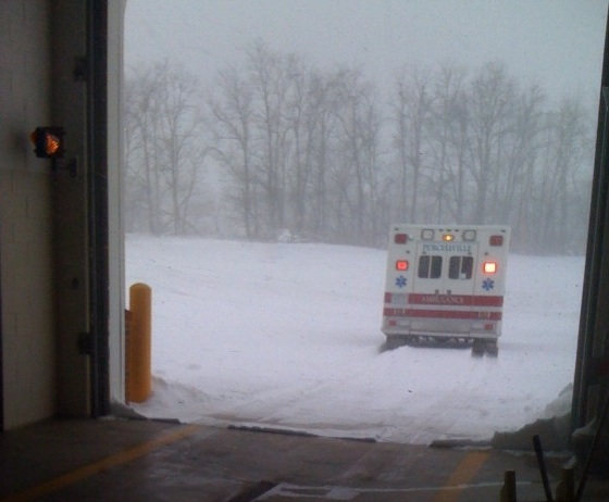 Ambulance 614-2 responding to a call in the first North American Blizzard of 2010